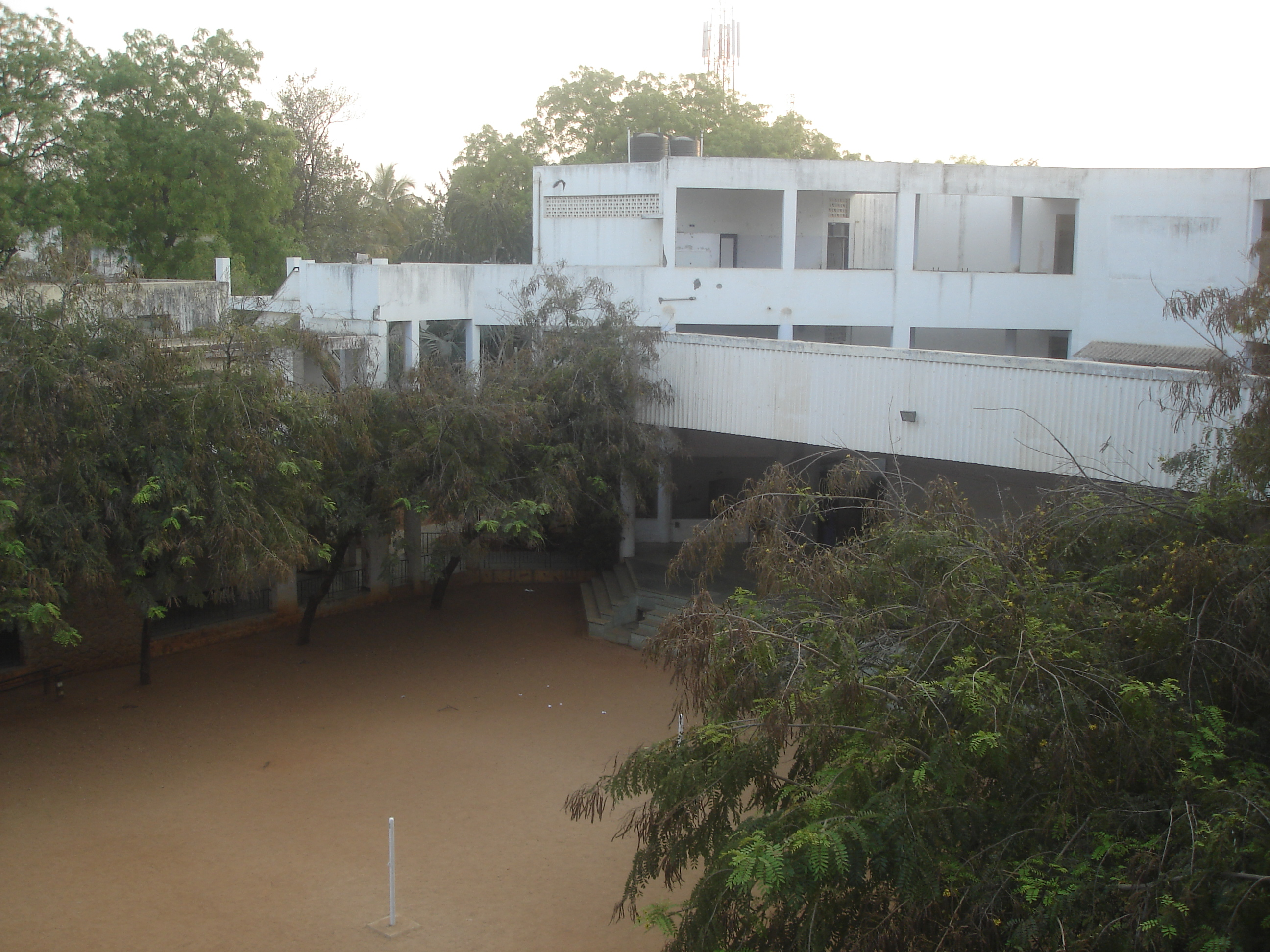 This image shows the Open Air Auditorium of the TVSMHSS.